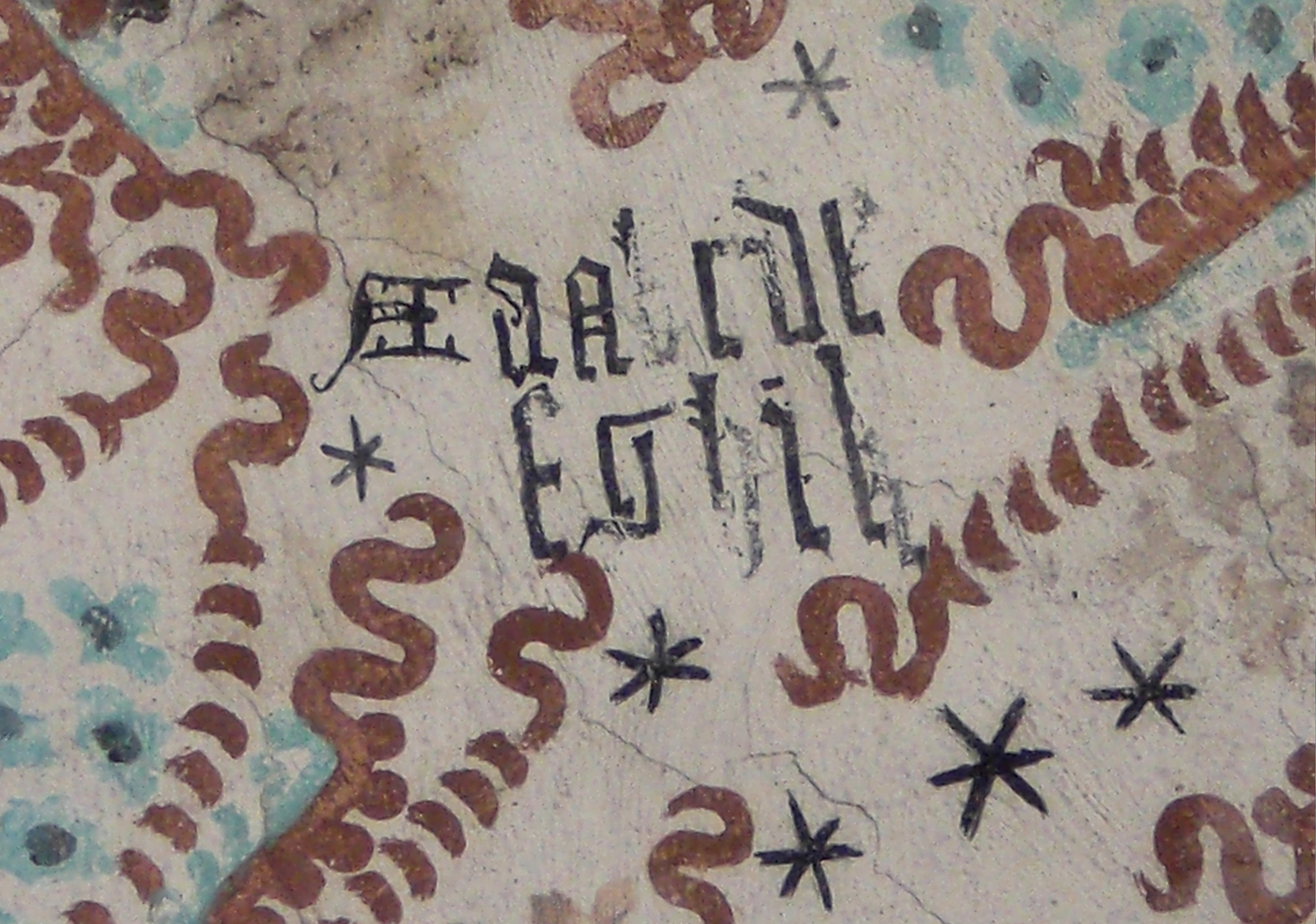 Alphabet in the ceiling. The text is above the crucifix